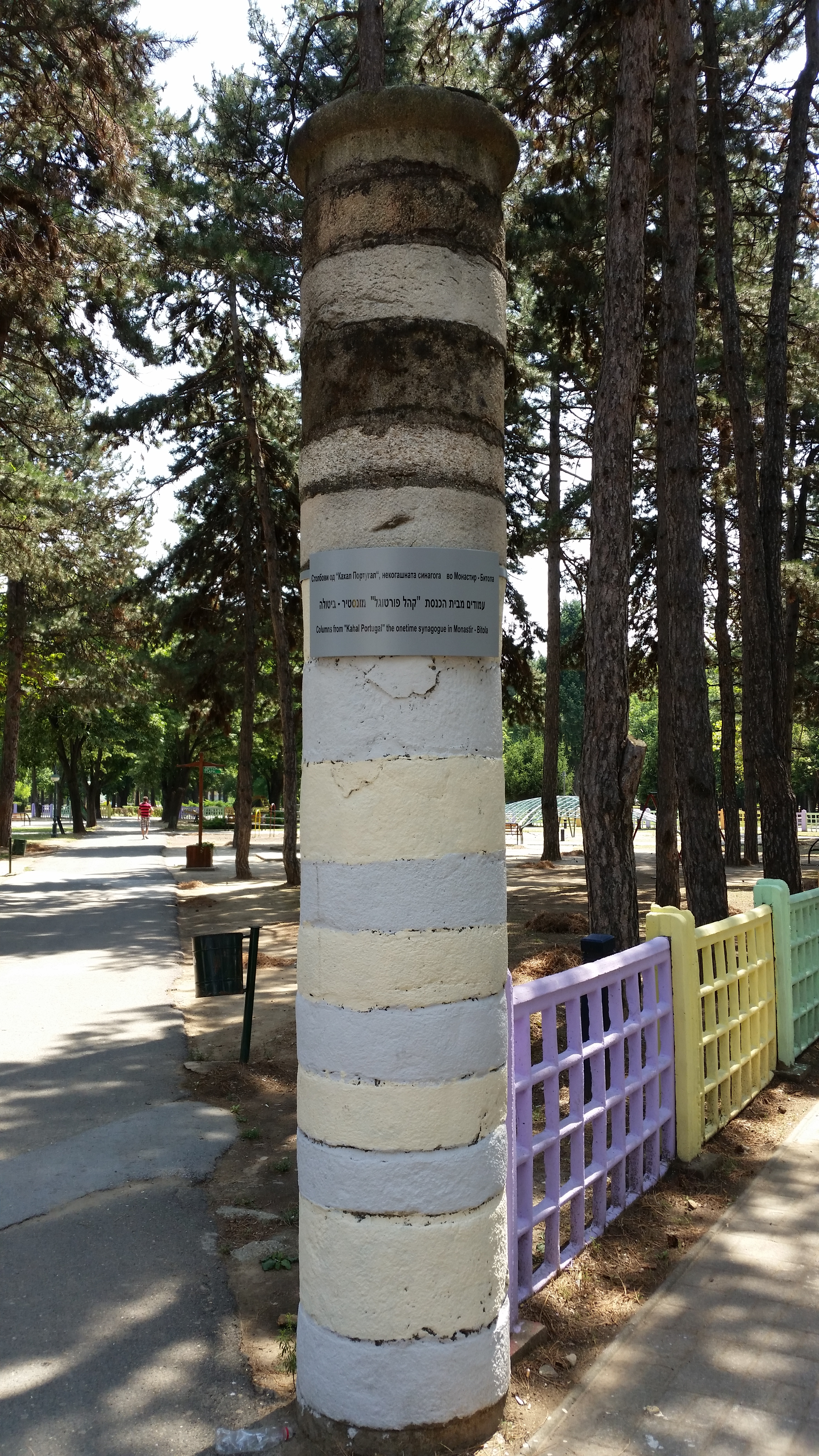 Columns from Synagogue "Kal Portugal" in Bitola